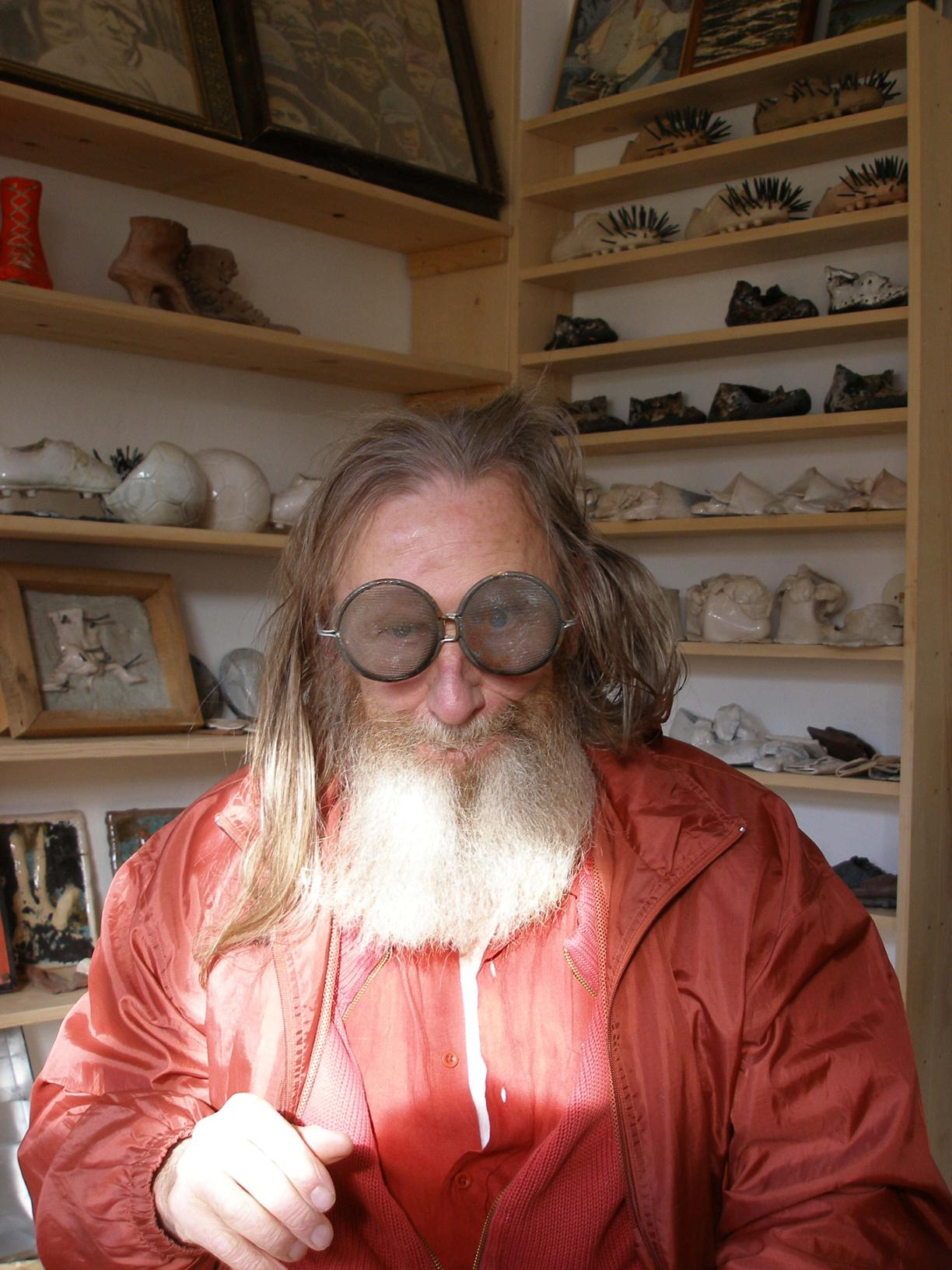 The German artist Siddharta Y Fongi